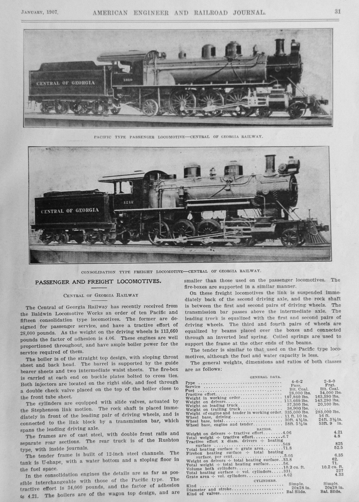 Photos of 2 Central of Georgia locomotives built by Baldwin which were new to the railway in 1907. The top photo is a 4-6-2 passenger locomotive and the bottom one is a 2-8-0 freight locomotive.